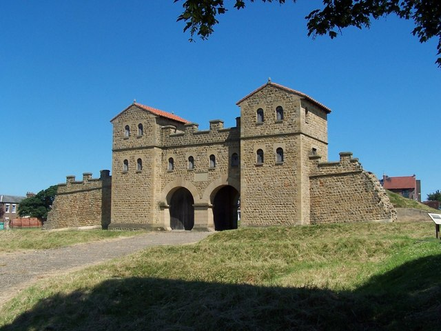 Reconstructed Gatehouse - Arbeia Roman Fort